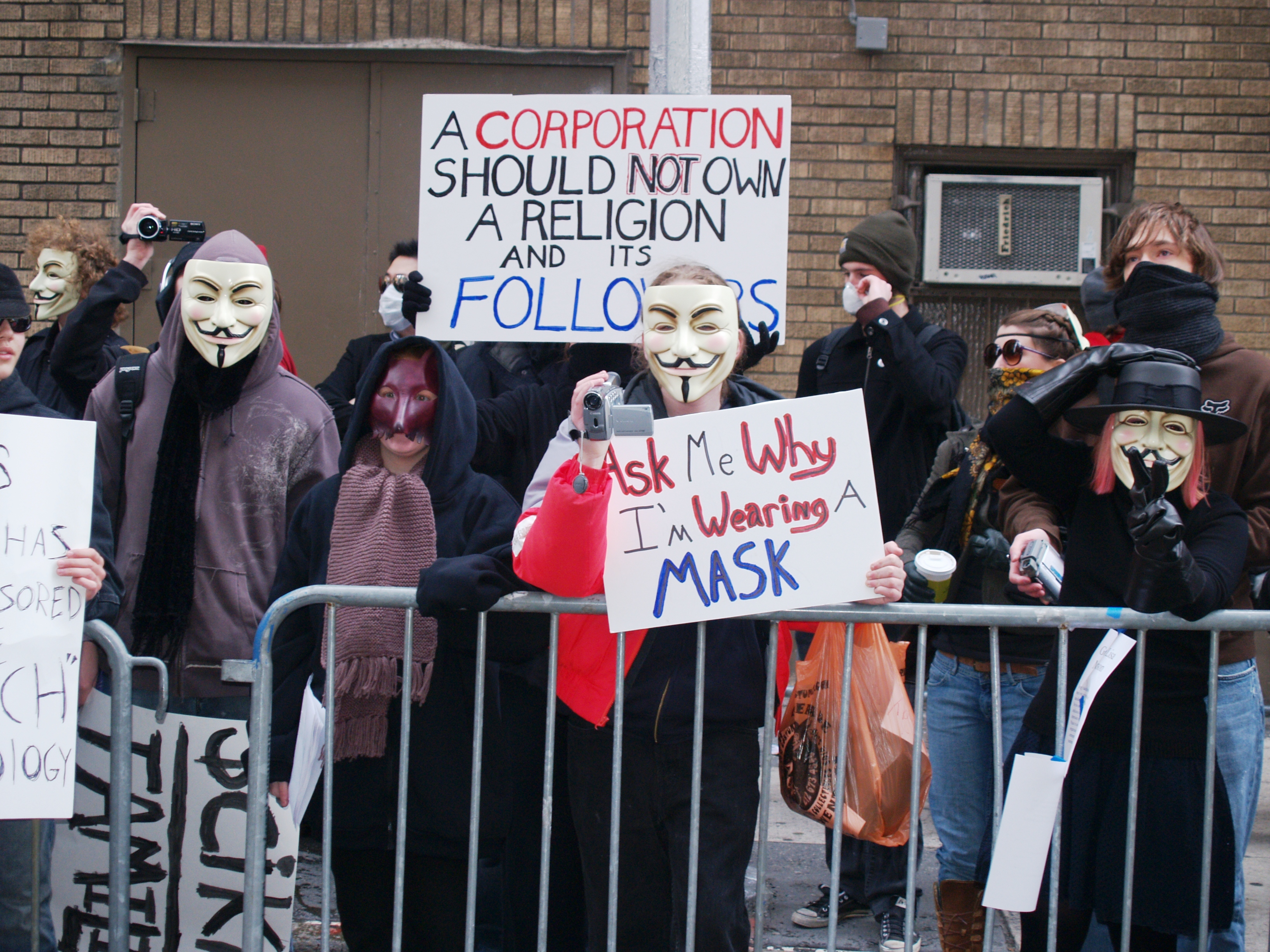 Protest by an Internet group calling itself 'Anonymous' against the practices and tax status of the Church of Scientology. The protesters believe the church is a cult that harms its practitioners, and that its tax-free status as a church should be revoked, as, they claim, it appears to be more of a corporation.